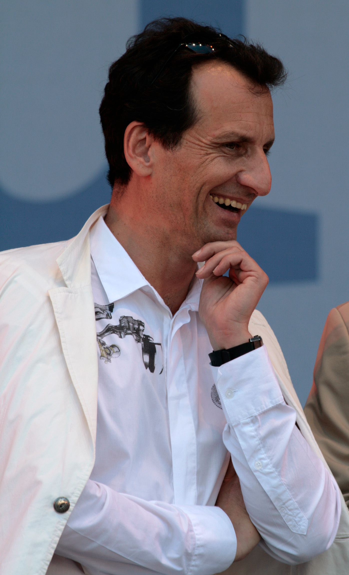 Austrian politician Christian Oxonitsch (SPÖ) during the Wien. Für Dich-(Vienna. For You-)weekend of the municipality of Vienna at the Rathaus.